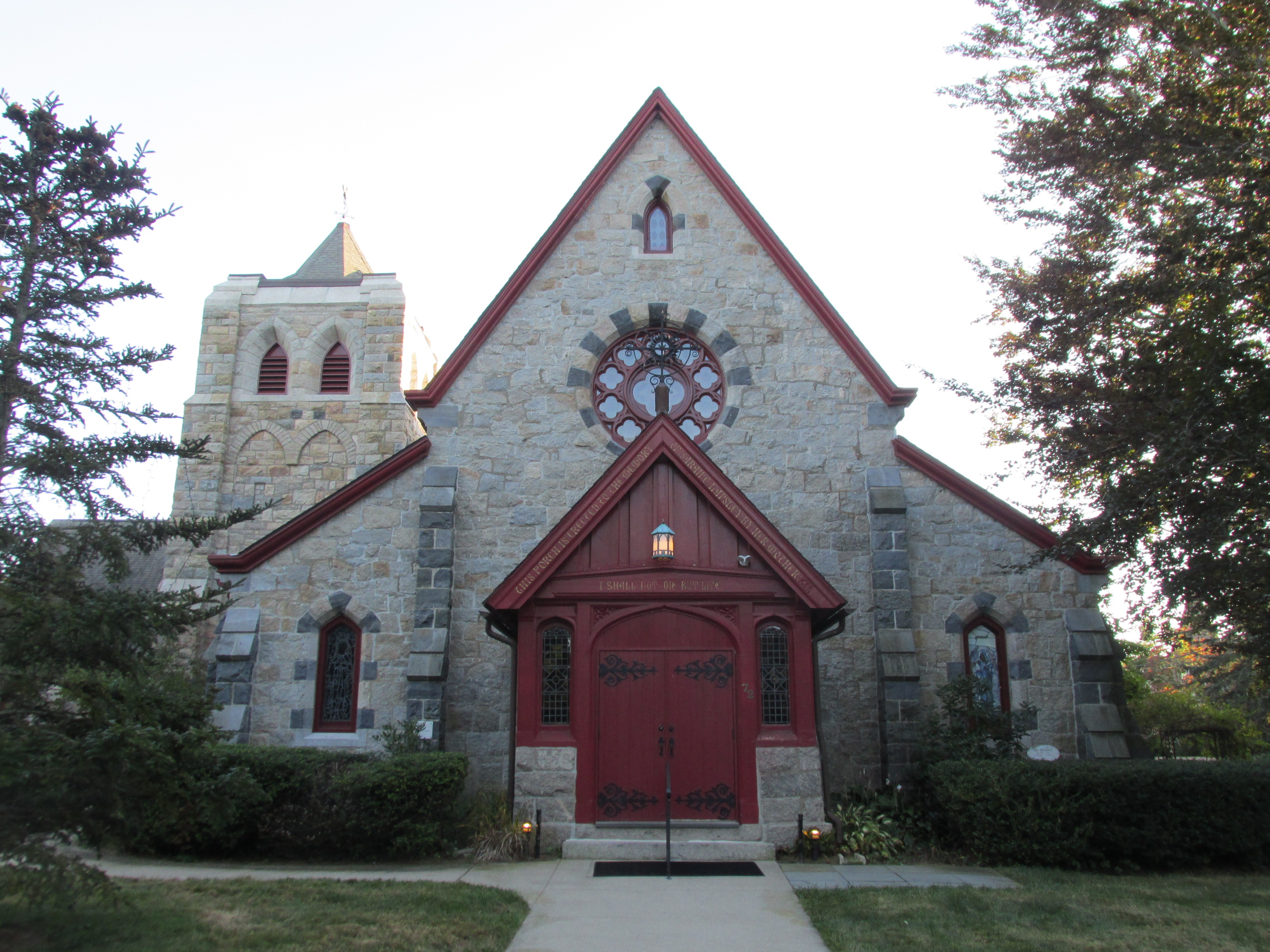 Saint Peters by the Sea in the Central Street Historic District, Narragansett Rhode Island